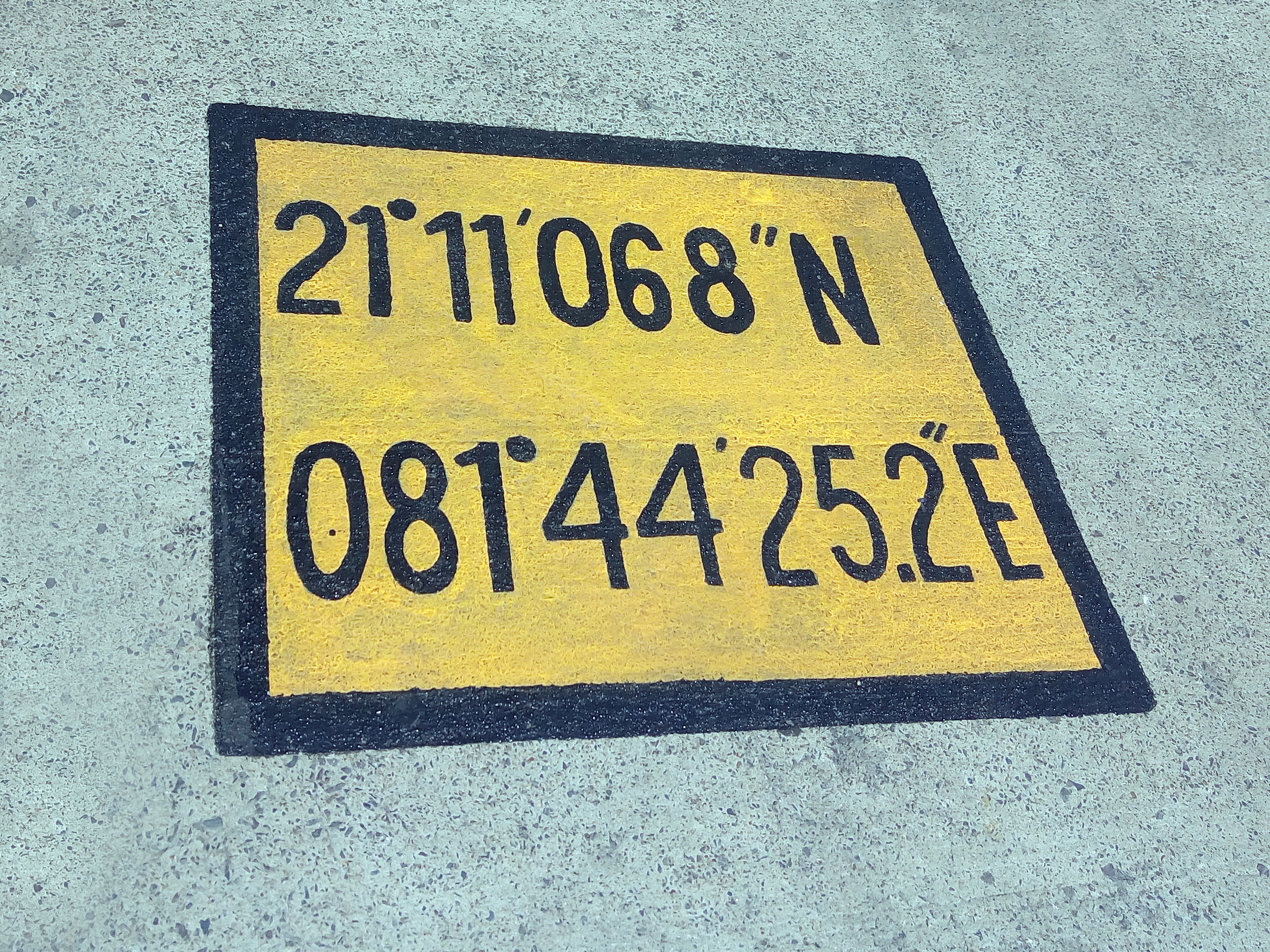 GPS data at Raipur Airport